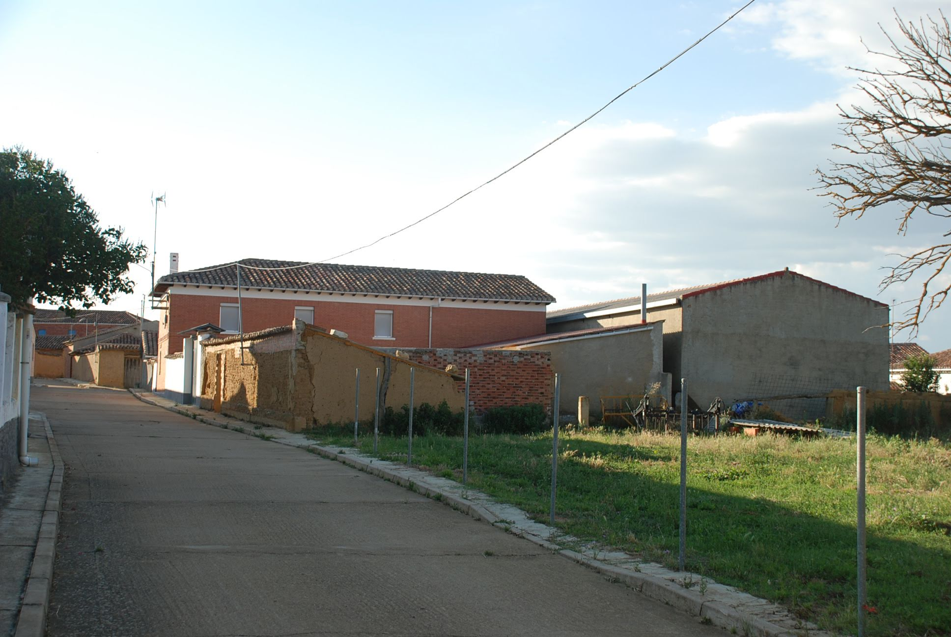 Mayor street view in Villamelendro de Valdavia (Palencia, Castile and León).